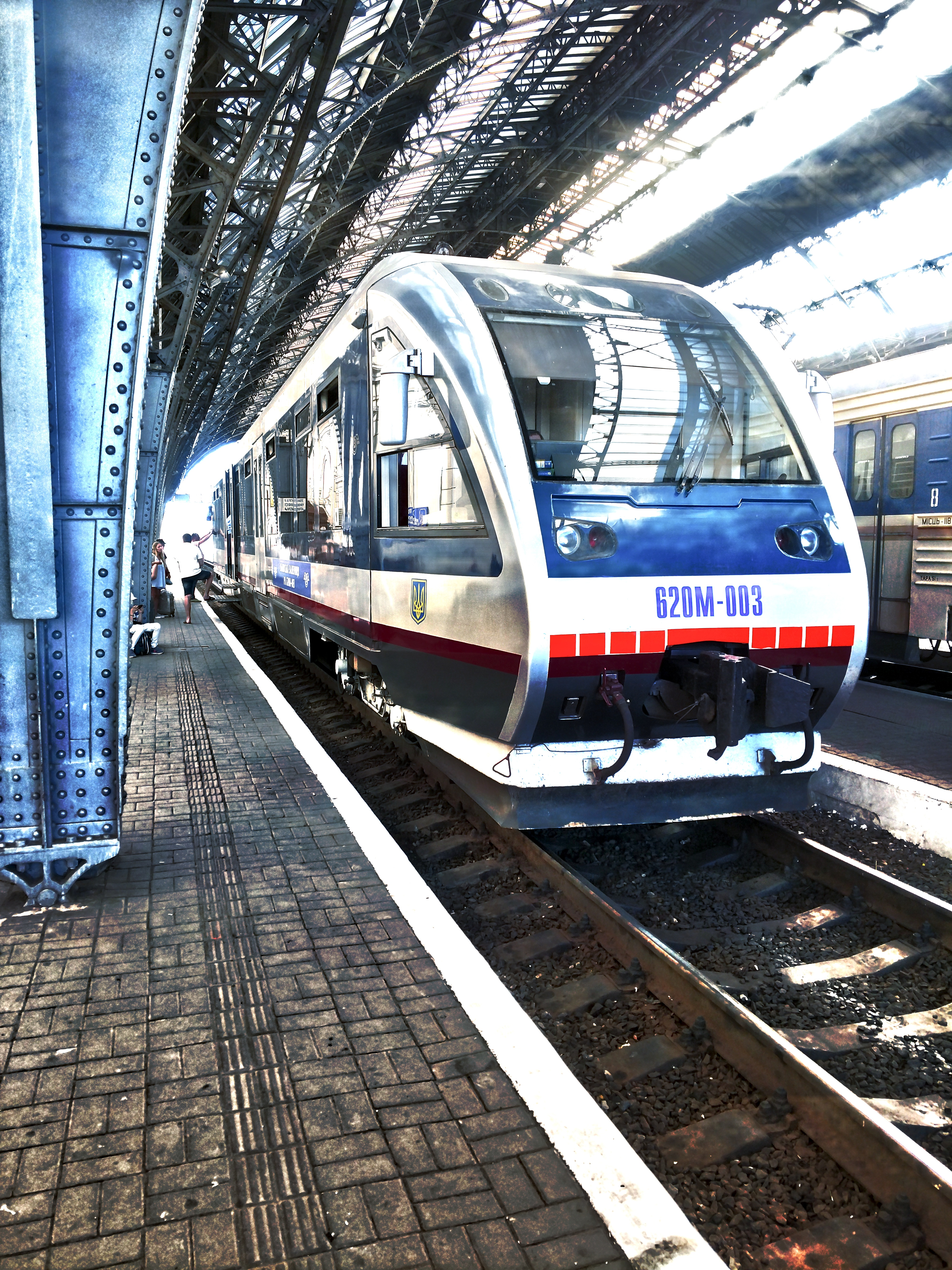 The photo of the train PESA 620M-003 at Lviv Railway Station, Ukraine